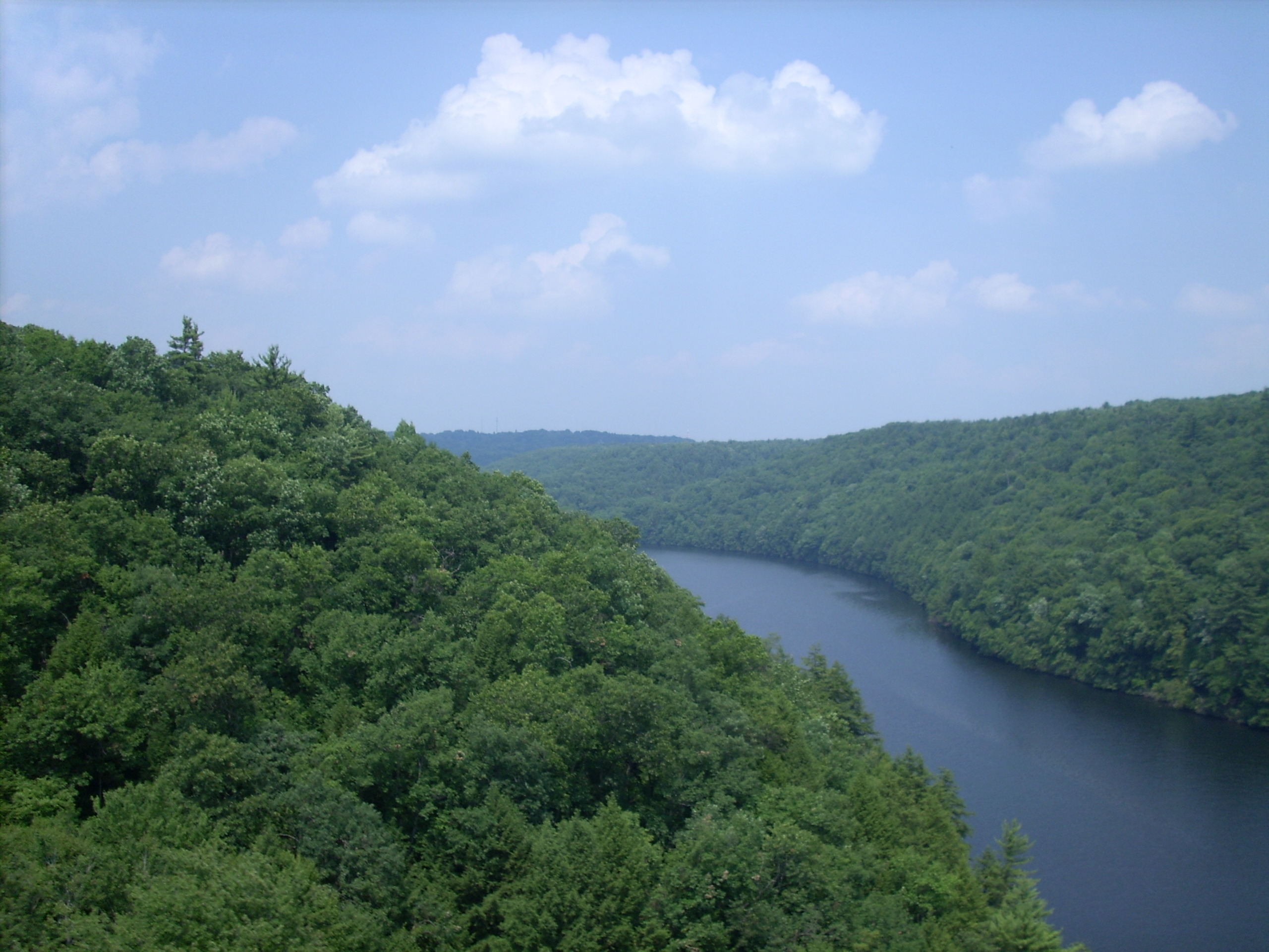 The Clarion River, near Clarion, PA, looking north while crossing the I-80 bridge over it.